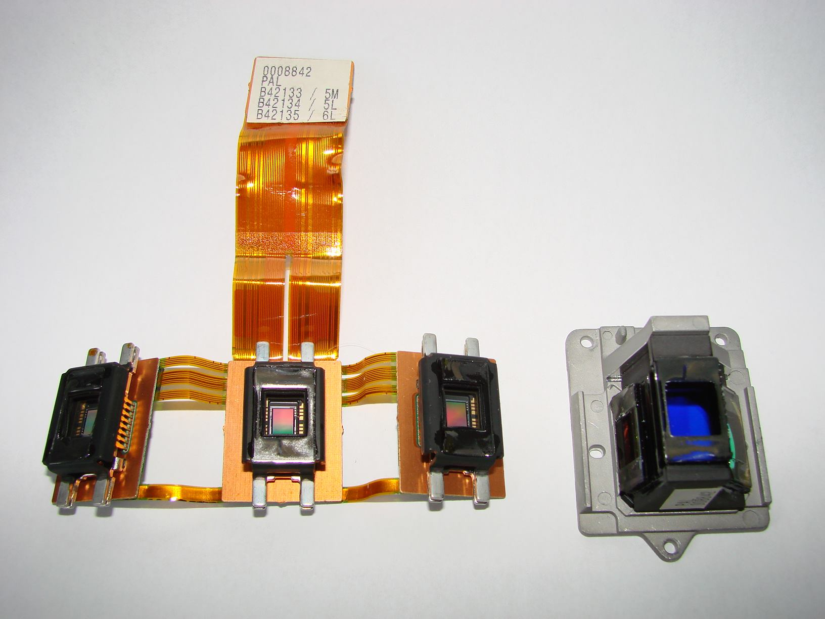 3 sensors and color separation prism disassembled from SONY DCR-VX1000E video camera